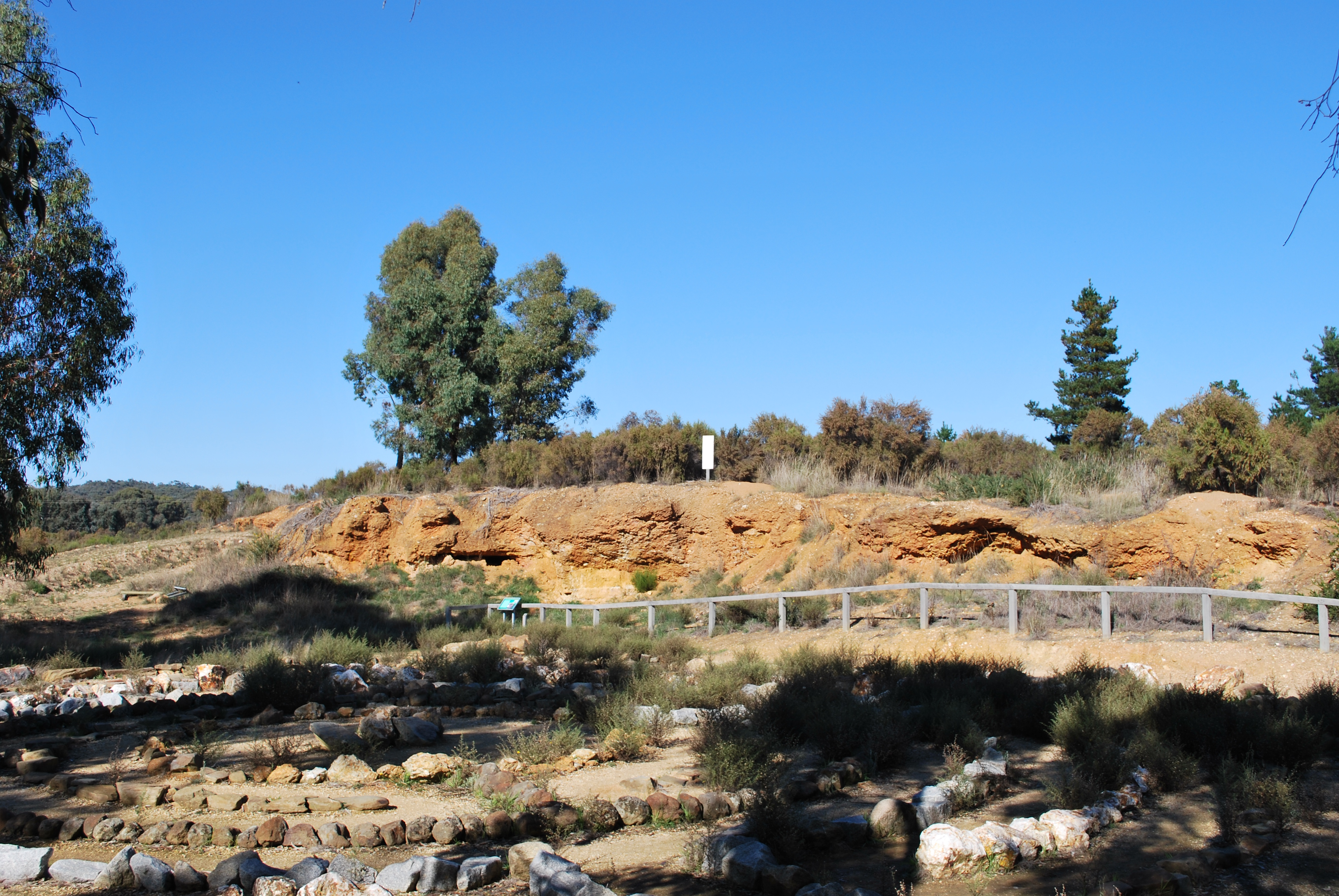 Forest Creek diggings, part of the Castlemaine Diggings National Heritage Park